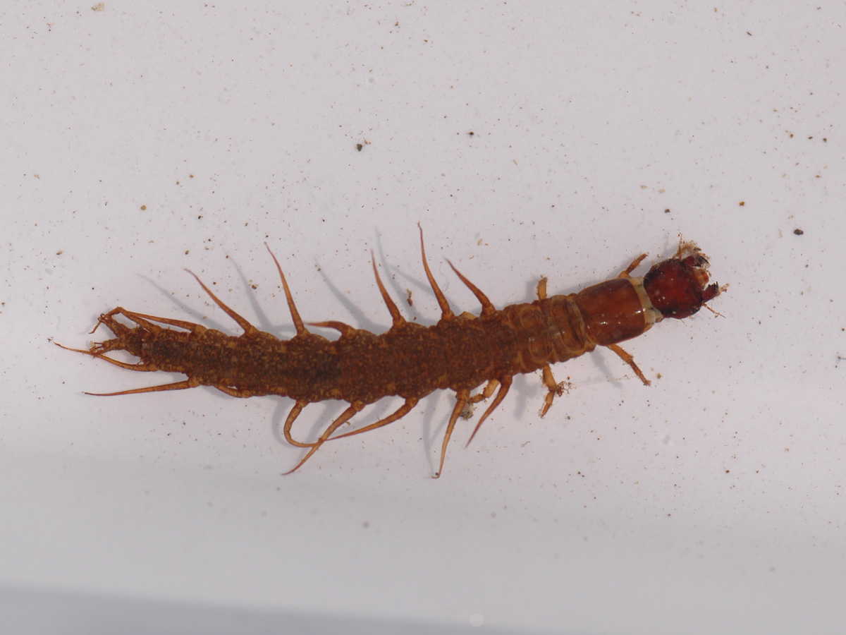 Parachauliodes continentalis